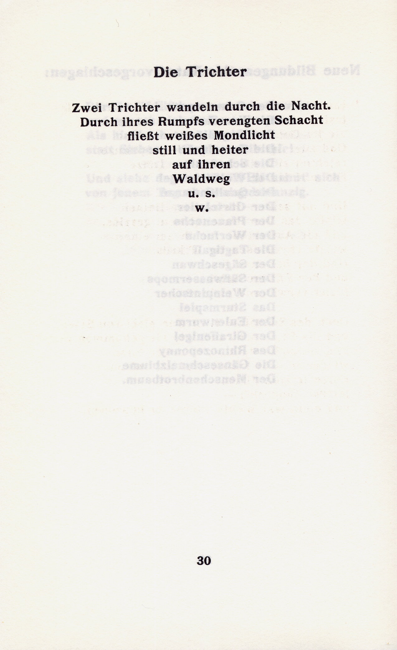 This is a scan of the historical document